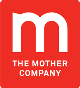 Logo of The Mother Company